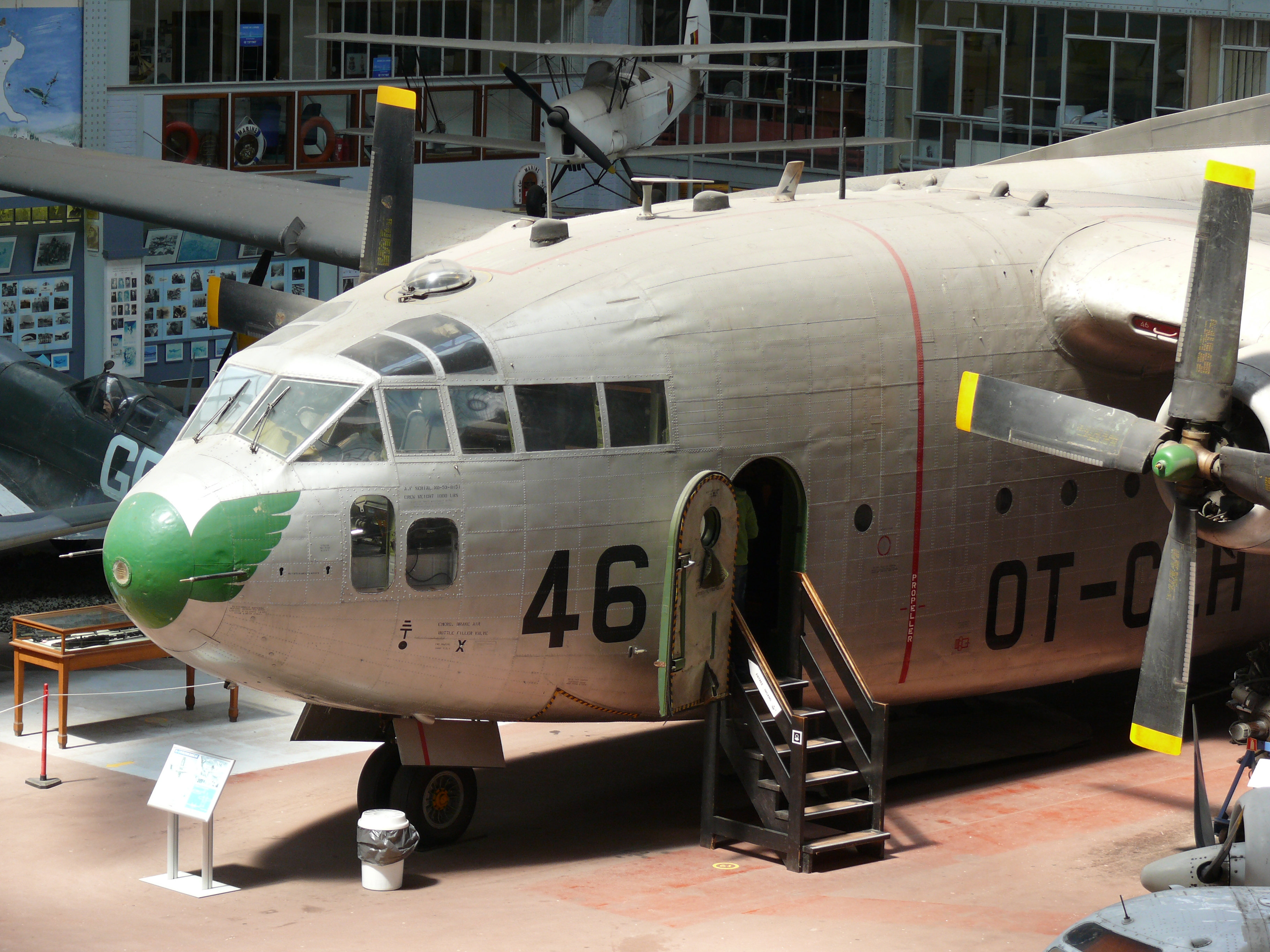 A Fairchild C-119 Flying Boxcar in the Royal Military Museum at the Jubelpark, Brussels. The Flying Boxcar was a post WW II American military transport aircraft